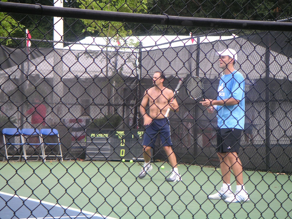 Paul used to be Pete Sampras' coach. Has some good instructional videos on the Tennis Channel as well.